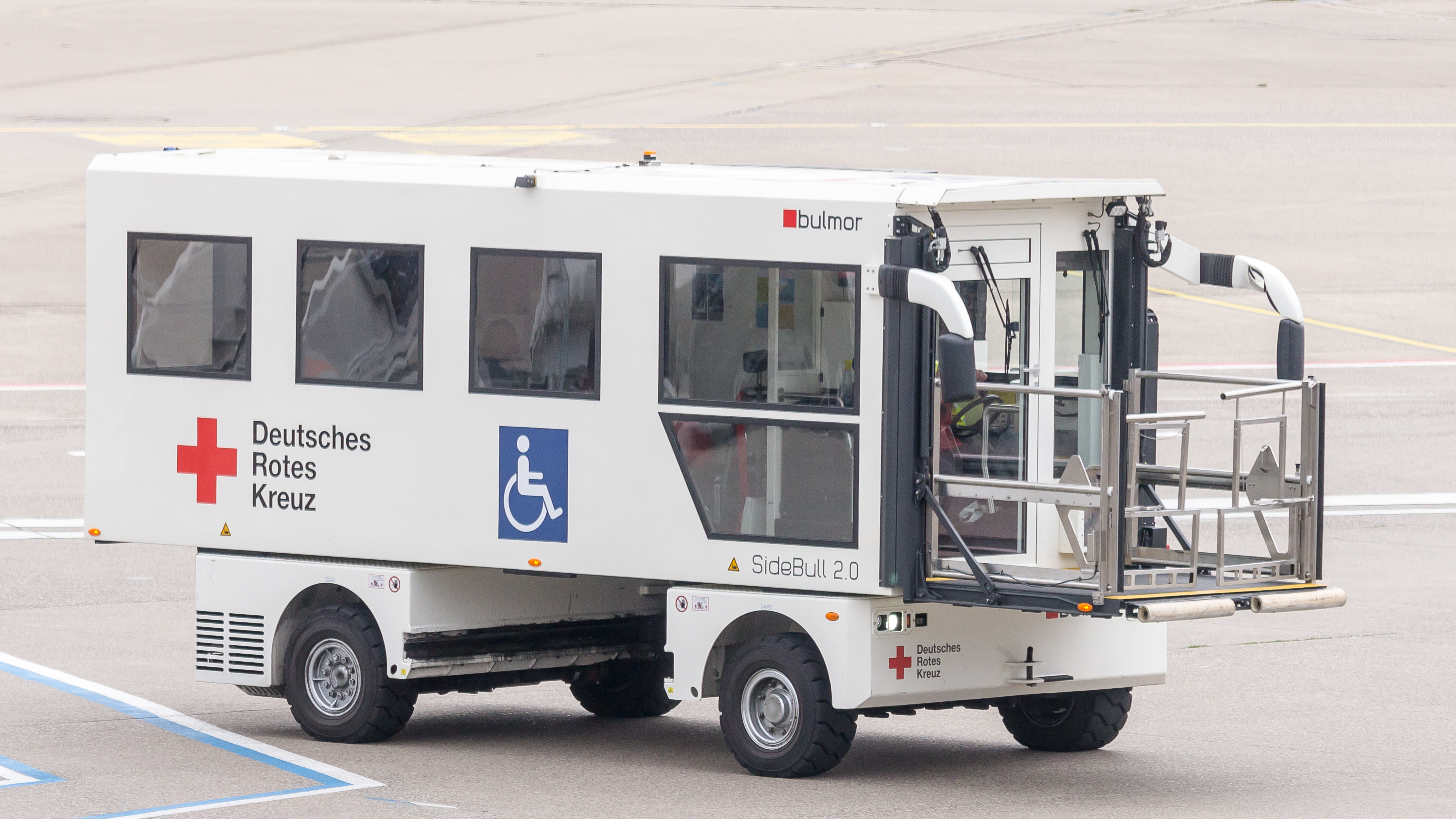 Ambulift Bulmor SideBull 2.0 - Deutsches Rotes Kreuz - Cologne Bonn Airport